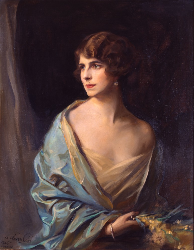 Princess Helen of Romania, née Princess Helen of Greece and Denmark, later Queen Mother of Romania